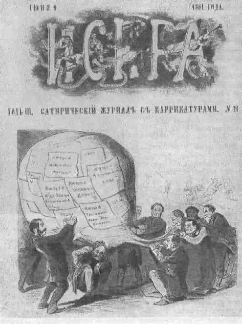 Title page of "Iskra" satirical magazine, 1861.